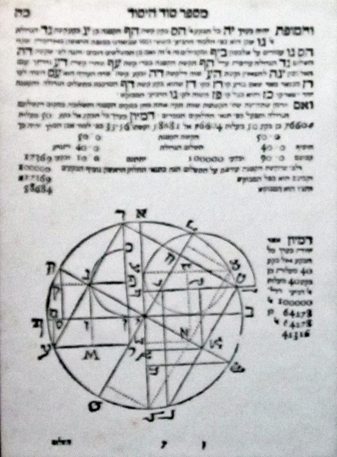 Sefer Elim by Joseph Delmedigo, Amsterdam, 1629